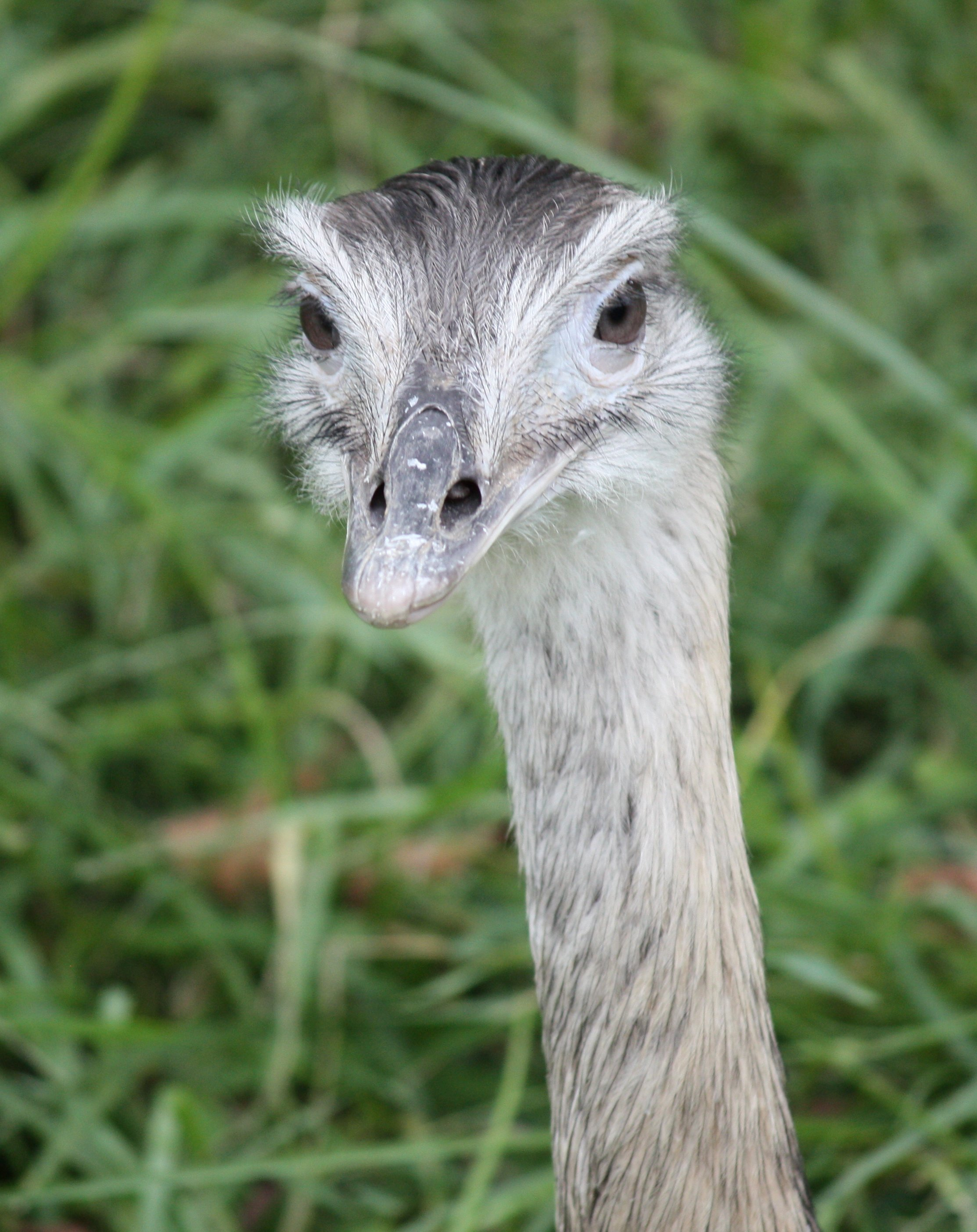 Greater Rhea Rhea americana at Louisville Zoo